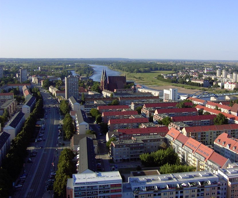 Frankfurt (Oder), Brandeburg, Germany. View from upper-most floor of office skyscaper “Oderturm” north with (from left to right) street Karl-Marx-Straße, church Friedenskirche, concert hall, Oder bridge and Słubice, Poland.